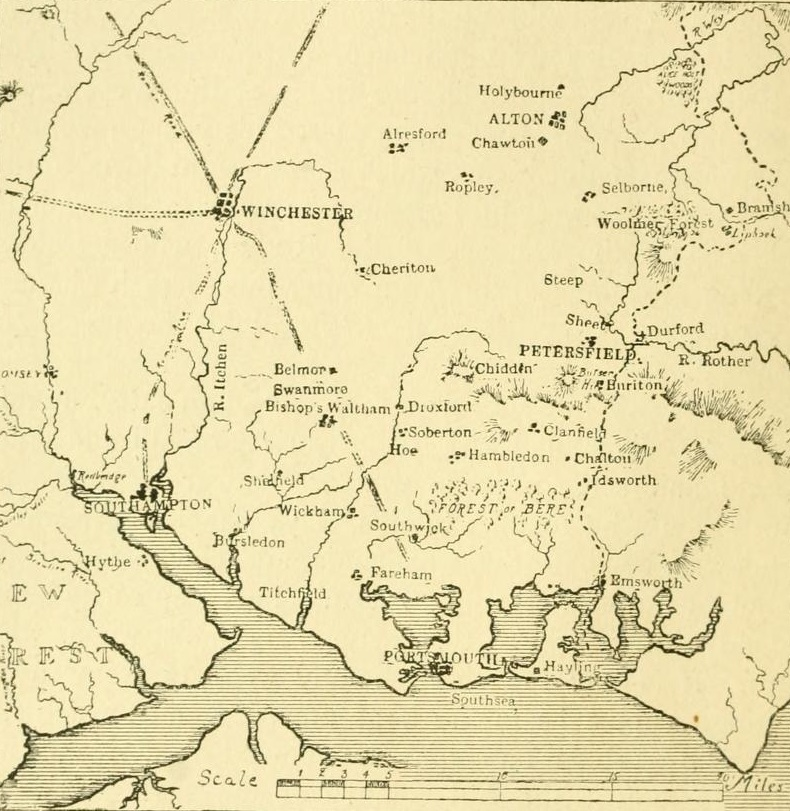 Sketch map of SE Hampshire by Robert Gunther in Early British Botanists 1922